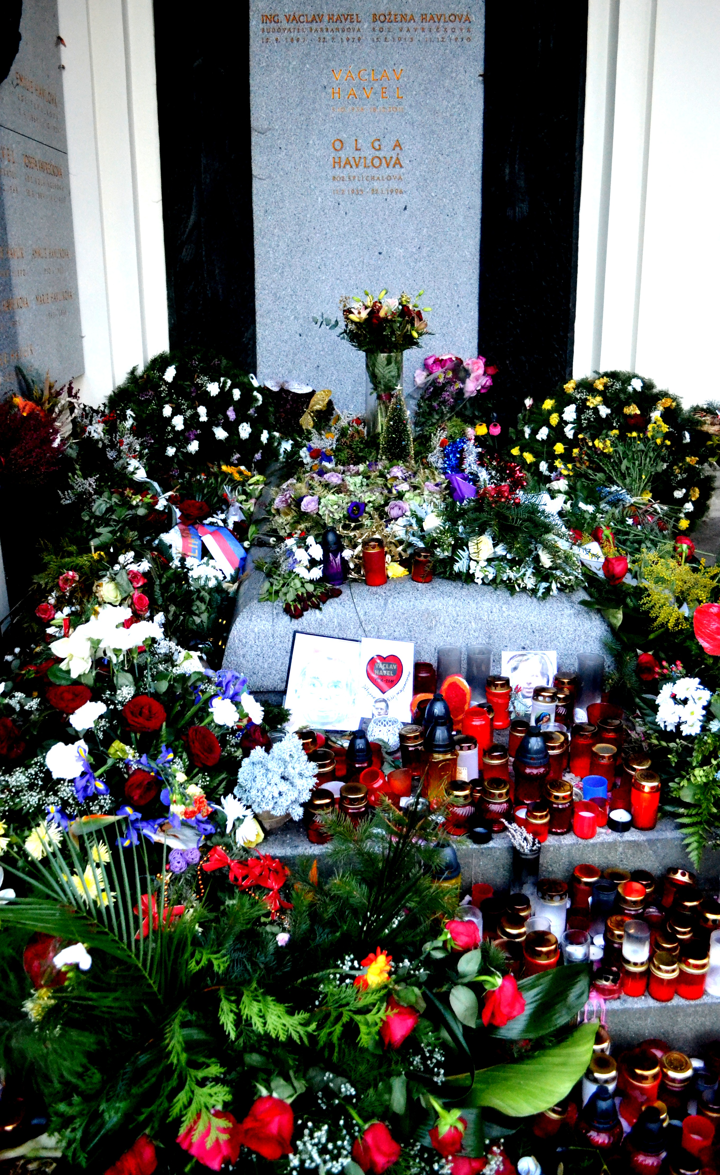 Tomb of Václav Havel and Olga Havlová, Vinohrady Cemetery, Prague